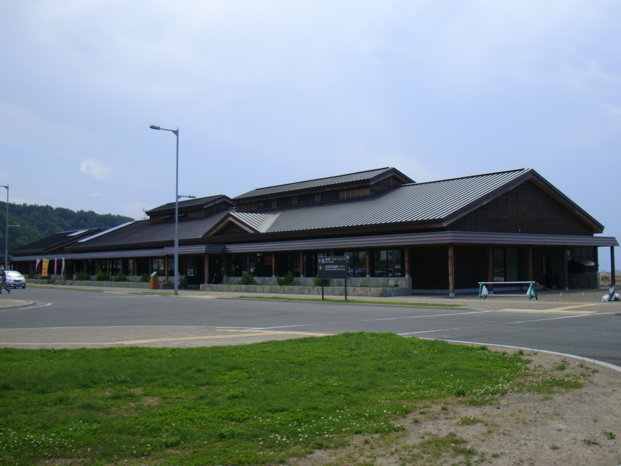 Roadside Station "Utoro Shirietoku"